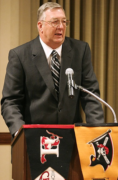 February 1, 2007 Hot Stove Banquet - Hickory Crawdads Kent Tekulve - Keynote Speaker